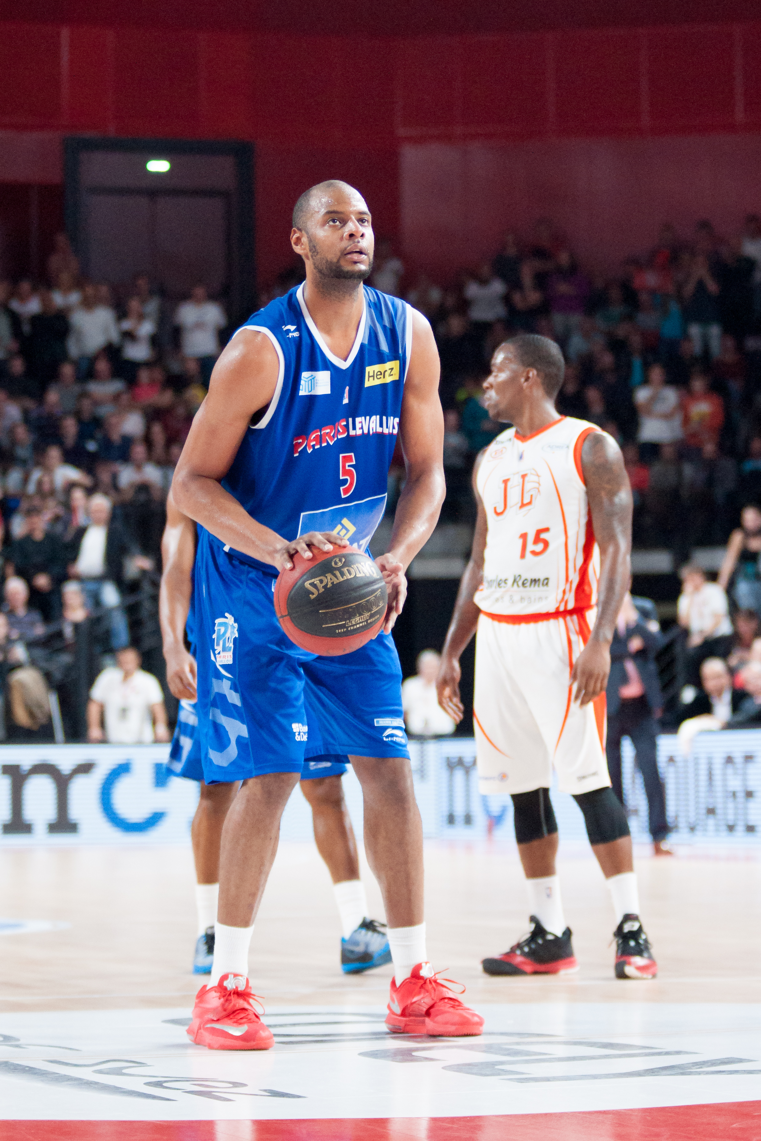 Bourg-en-Bresse vs. Paris-Levallois, 15th November 2014